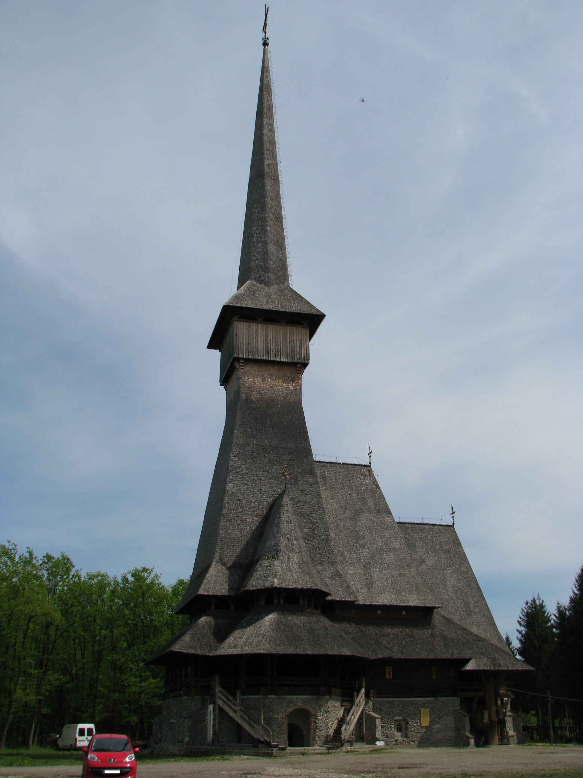 Săpânța Monastery, the highest wooden structure in Europe at 75 m